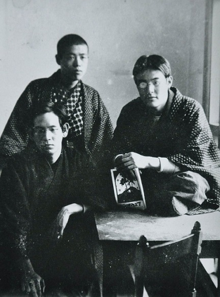 In the lower left is Kishida Ryūsei, right is Kimura Shōhachi.